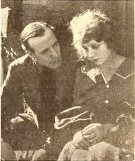 Still from the American western film Man's Desire (1919) with Lewis Stone and Jane Novak, page 783 of the July 19, 1919 Motion Picture News.